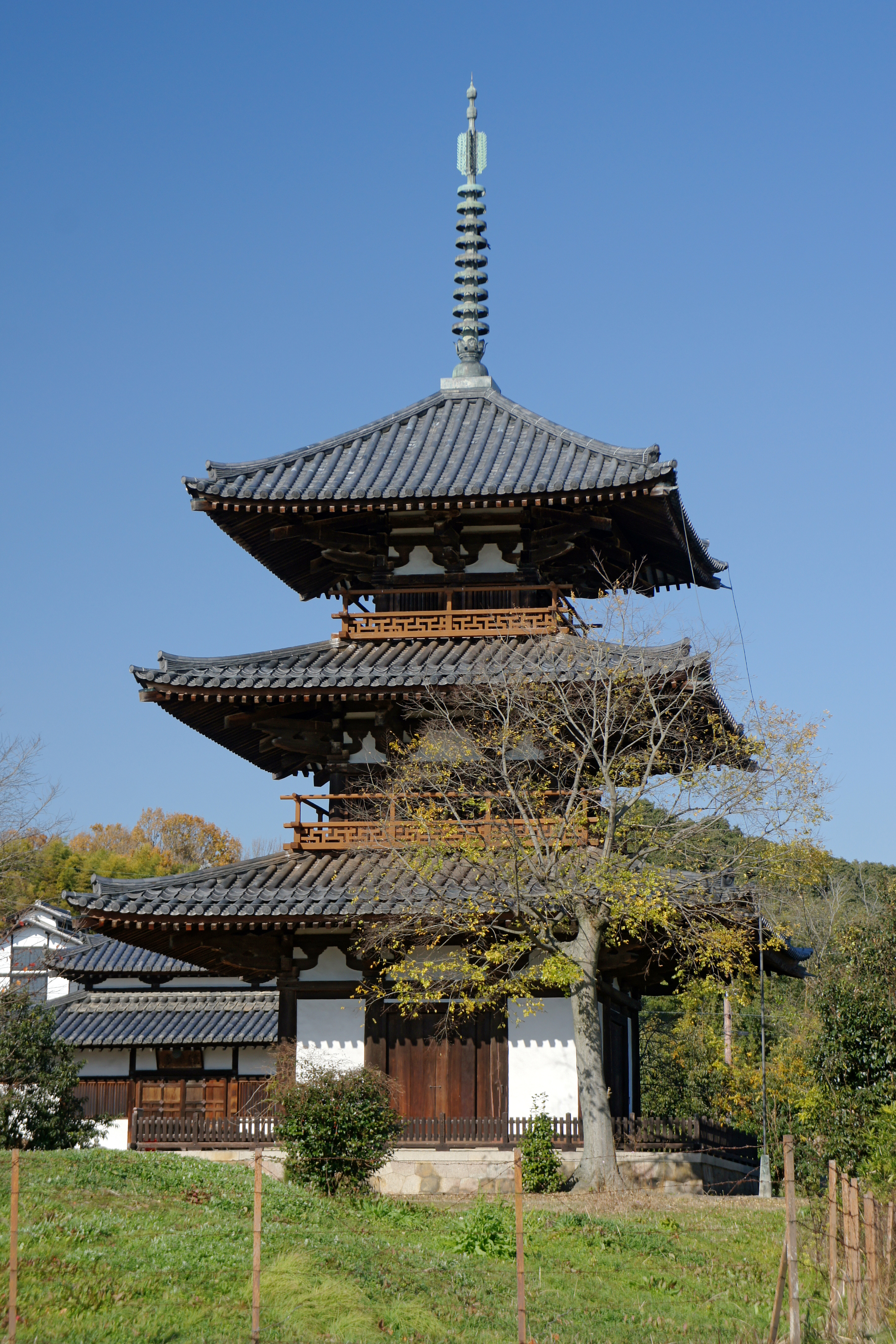 Hokki-ji is a Buddhist temple in Ikaruga, Nara prefecture, Japan. It was registered as part of the UNESCO World Heritage Site "Buddhist Monuments in the Hōryū-ji Area". The Three-storied Pagoda is a Japan's National Treasure. It was built in 706.